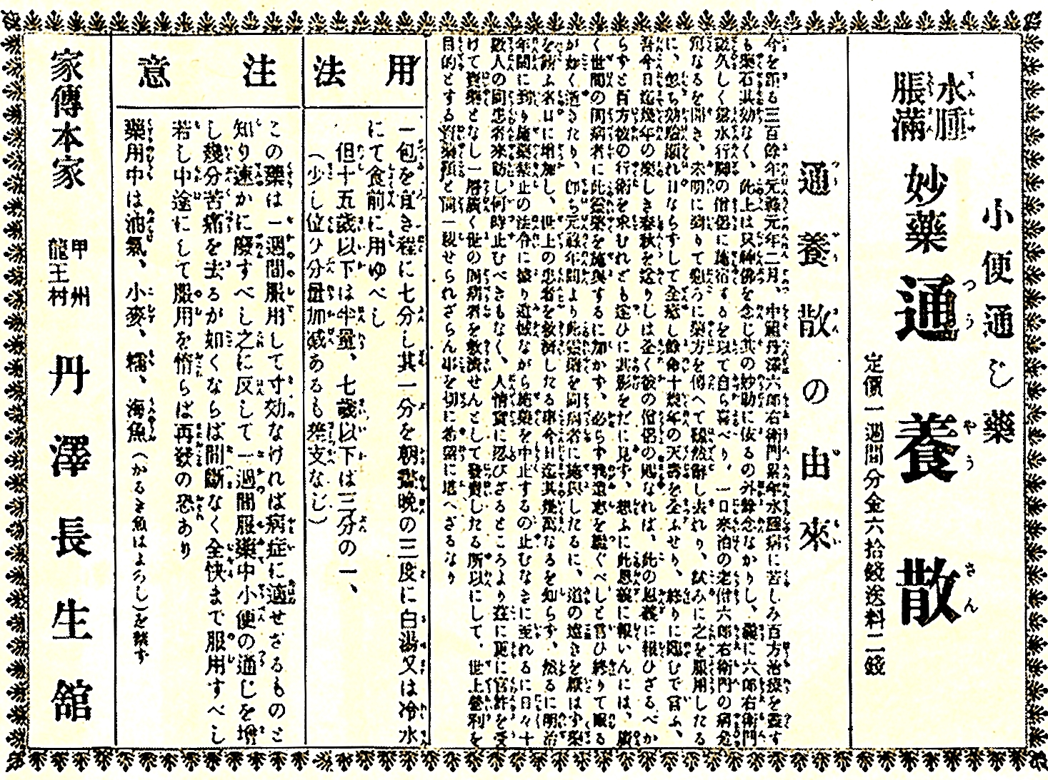 Tsuyosan, folk medicine for Schistosomiasis japonica, 1910 circa.